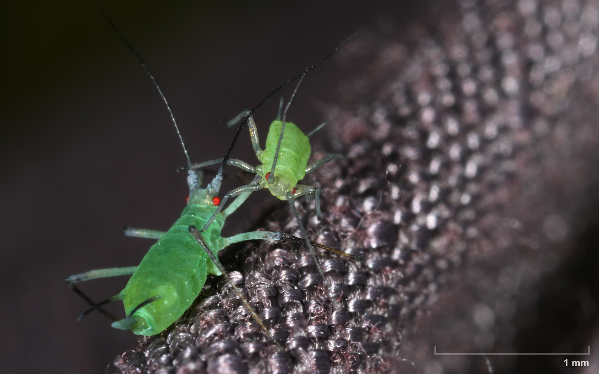 Aphids, also known as plant lice, are minute plant-feeding insects.